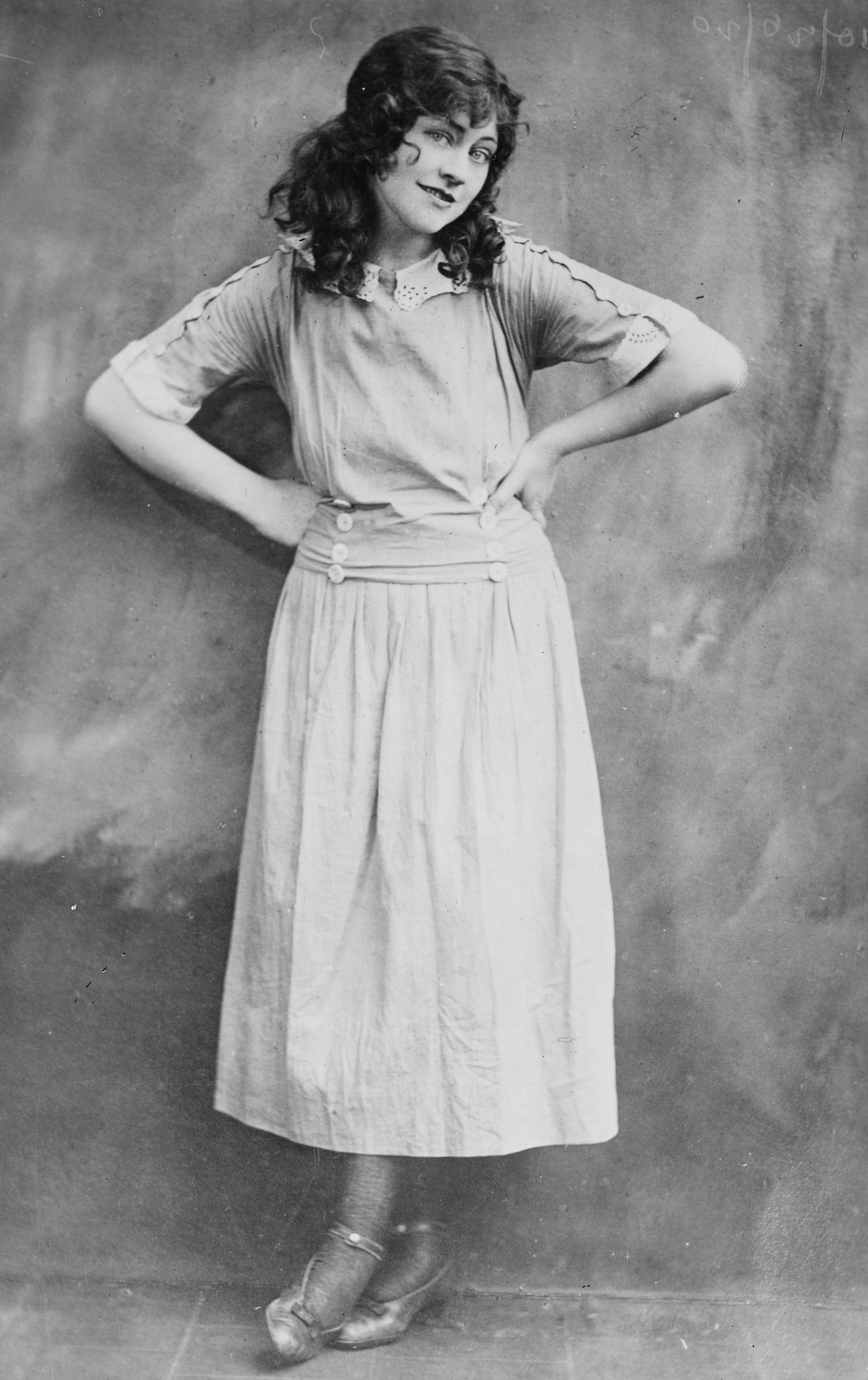 Title: Peggy O'Neil Abstract/medium: 1 negative : glass ; 5 x 7 in. or smaller.